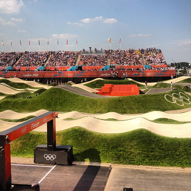 @ London 2012 BMX Track (posted via FlickSquare)